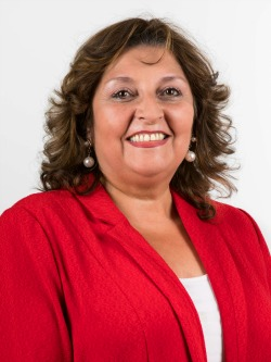 Official photograph of Sandra Amar as deputy of the Republic in 2018